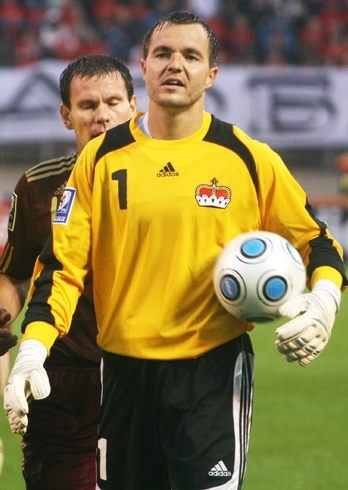 Peter Jehle in Liechtenstein national football team